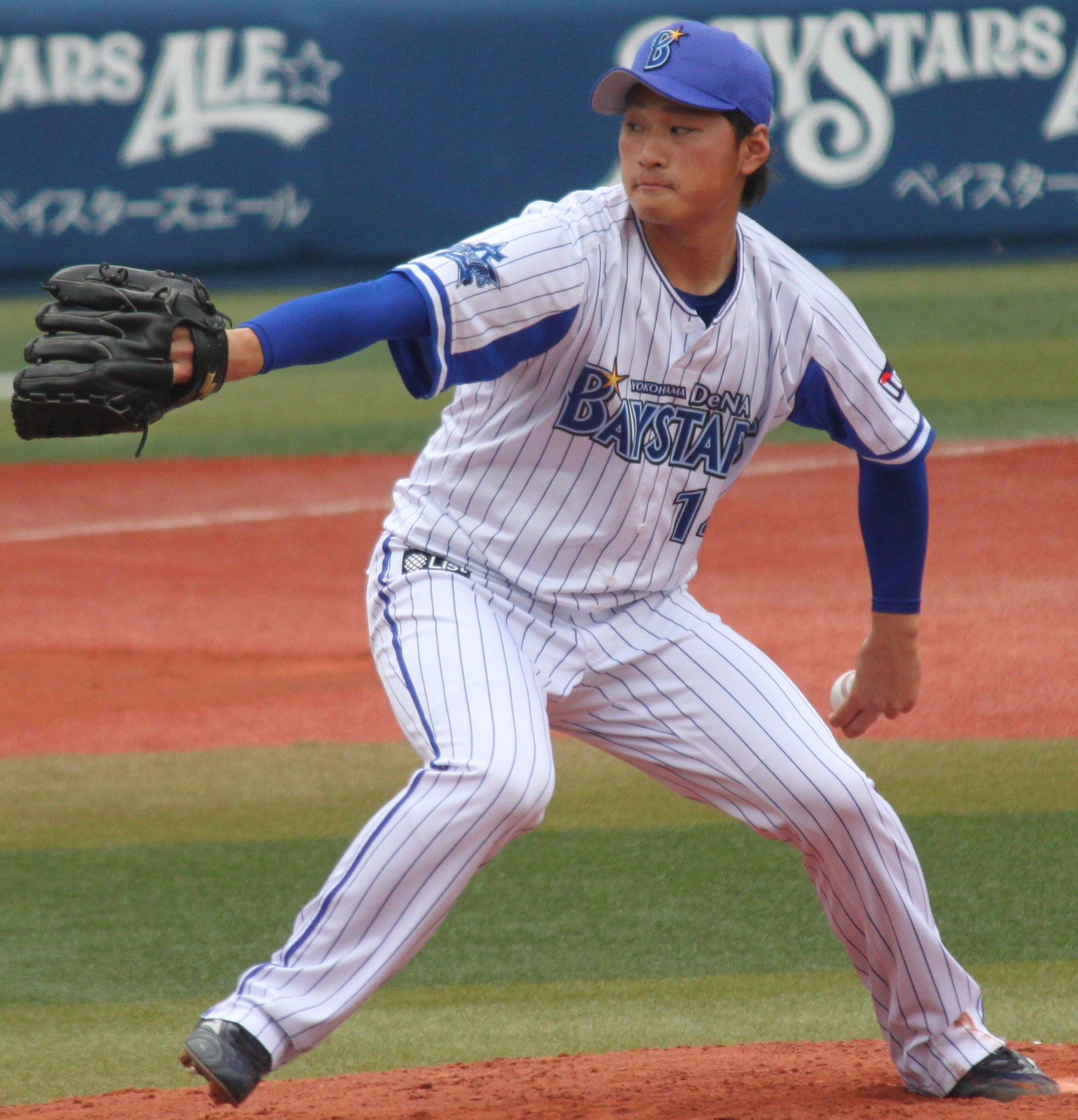 Kenta Ishida, pitcher of the Yokohama DeNA BayStars, at Yokohama Stadium